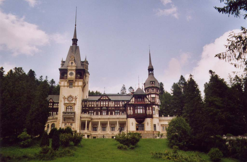 Peles Castle in Sinaia, Romania